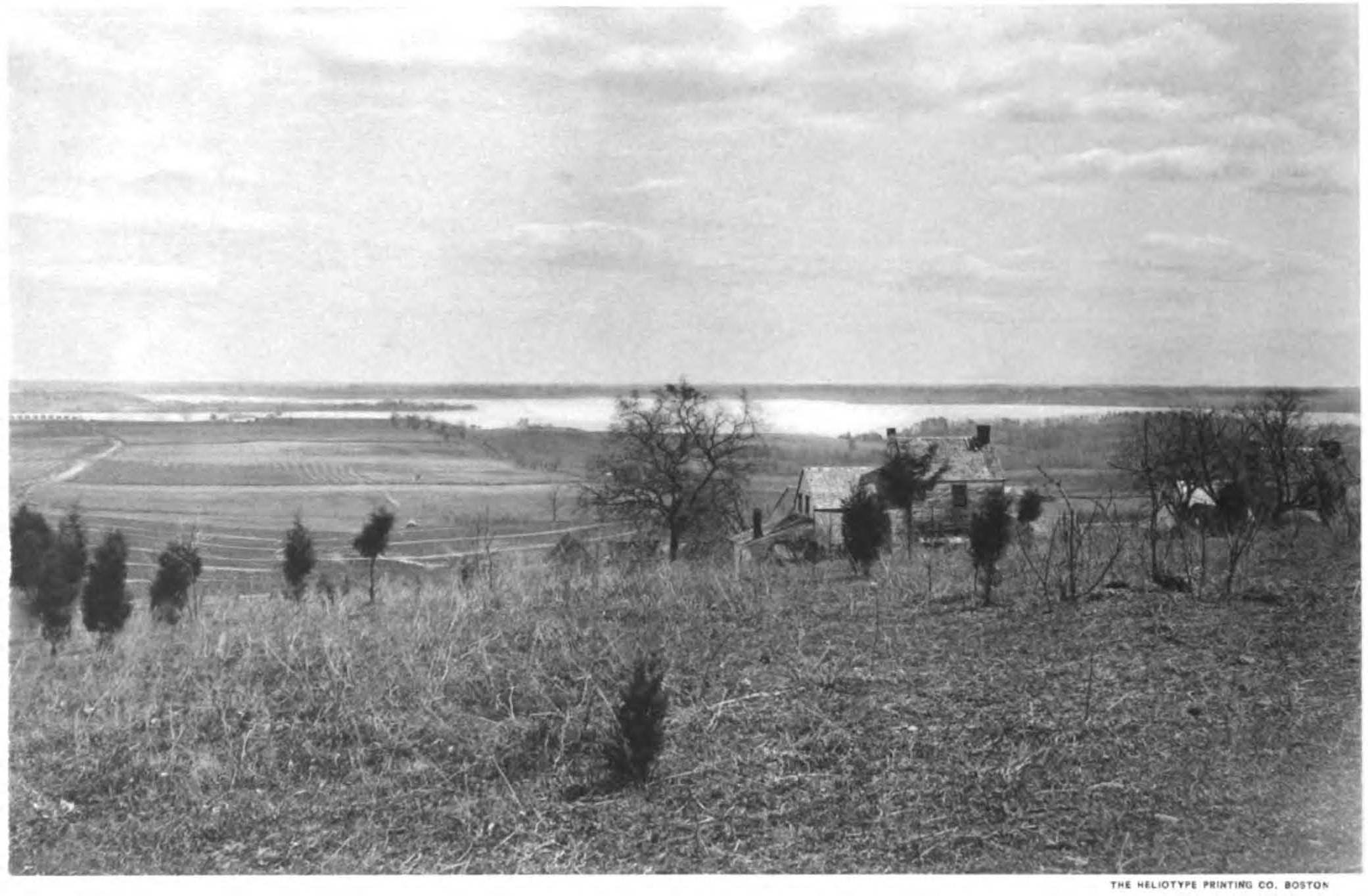 Plate XLVII of 1898 publication called Maryland Geological Survey Volume Two. Caption: Elk and Bohemia Rivers, from Elk Neck. At the head of Chesapeake Bay. Facing roughly south towards the confluence.